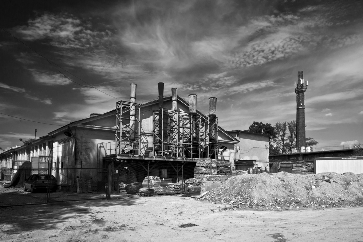 Zabłocie, industrial landscape, fot. Rafał Sosin